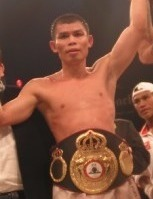 Photo by Jeffrey Pamungkas (copyright protected).